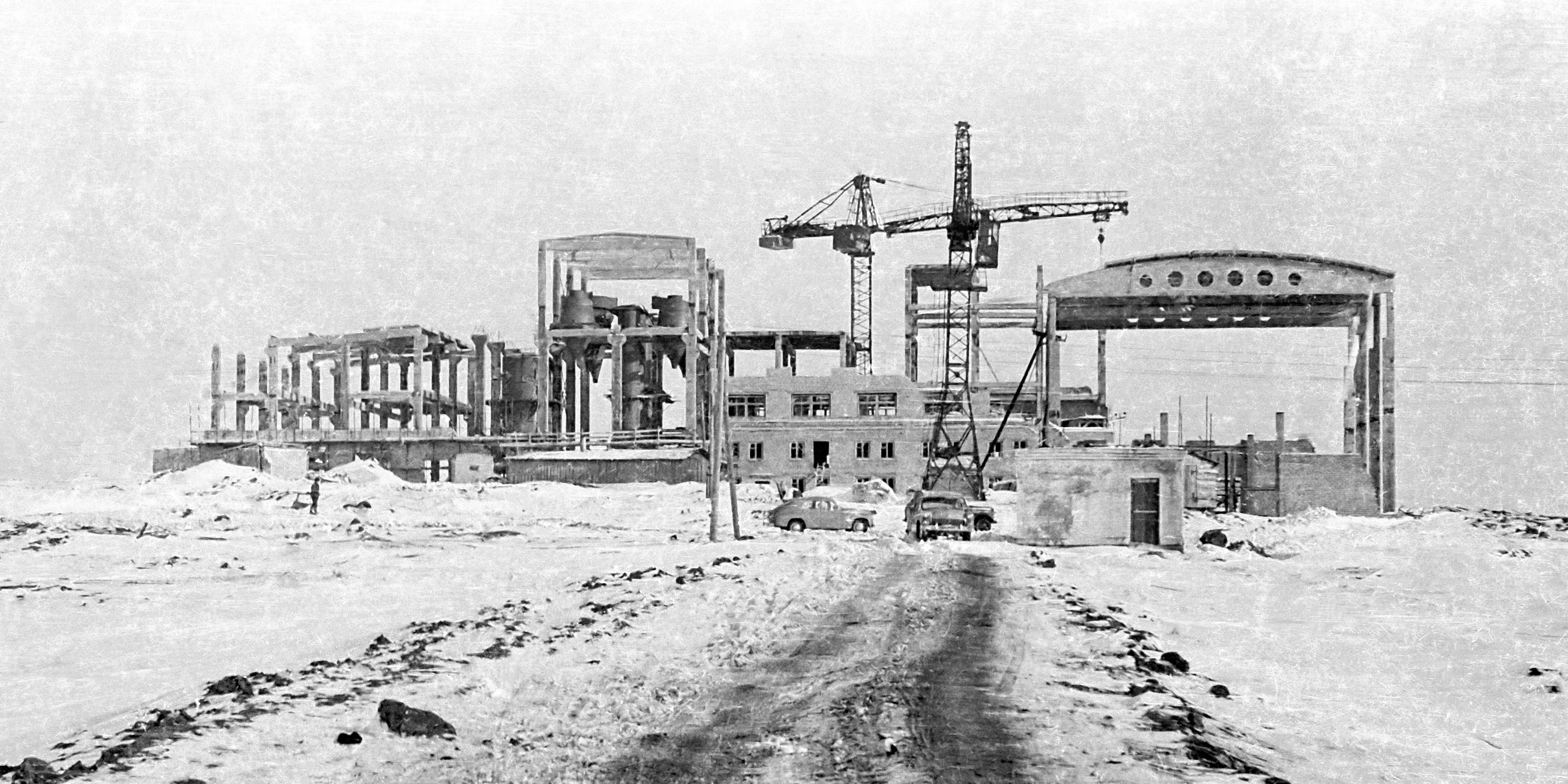 General view of construction of Berendeyevo peat briquette plant.